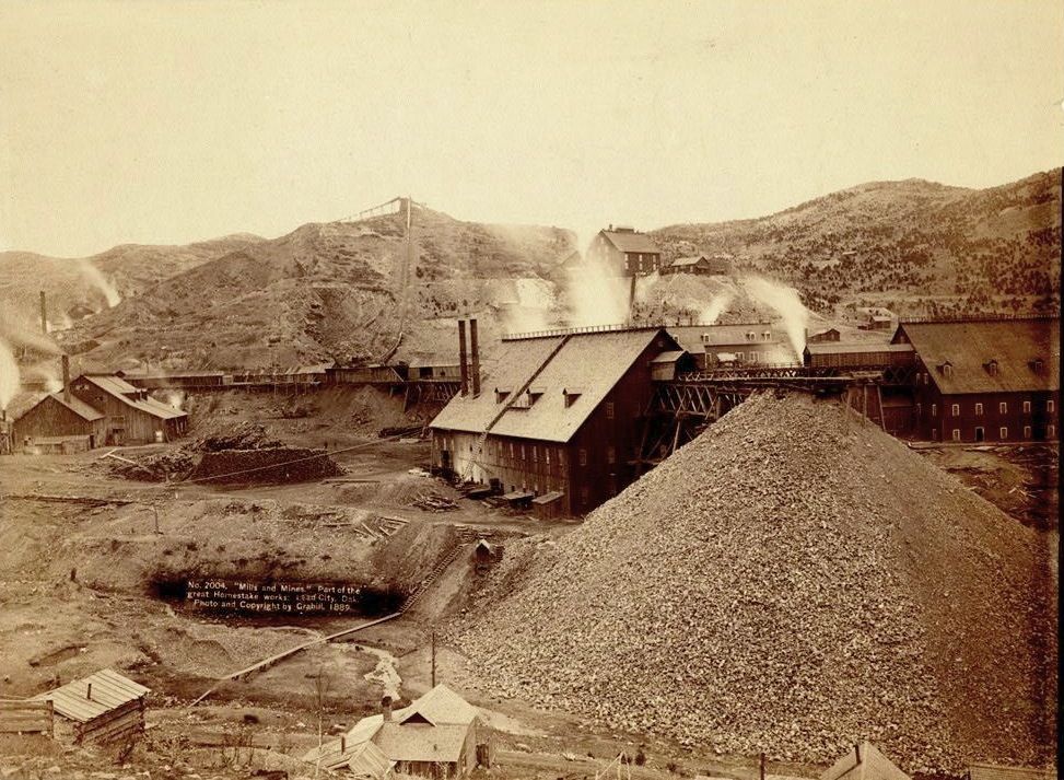 "Mills and mines." Part of the great Homestake works, Lead City, Dak.